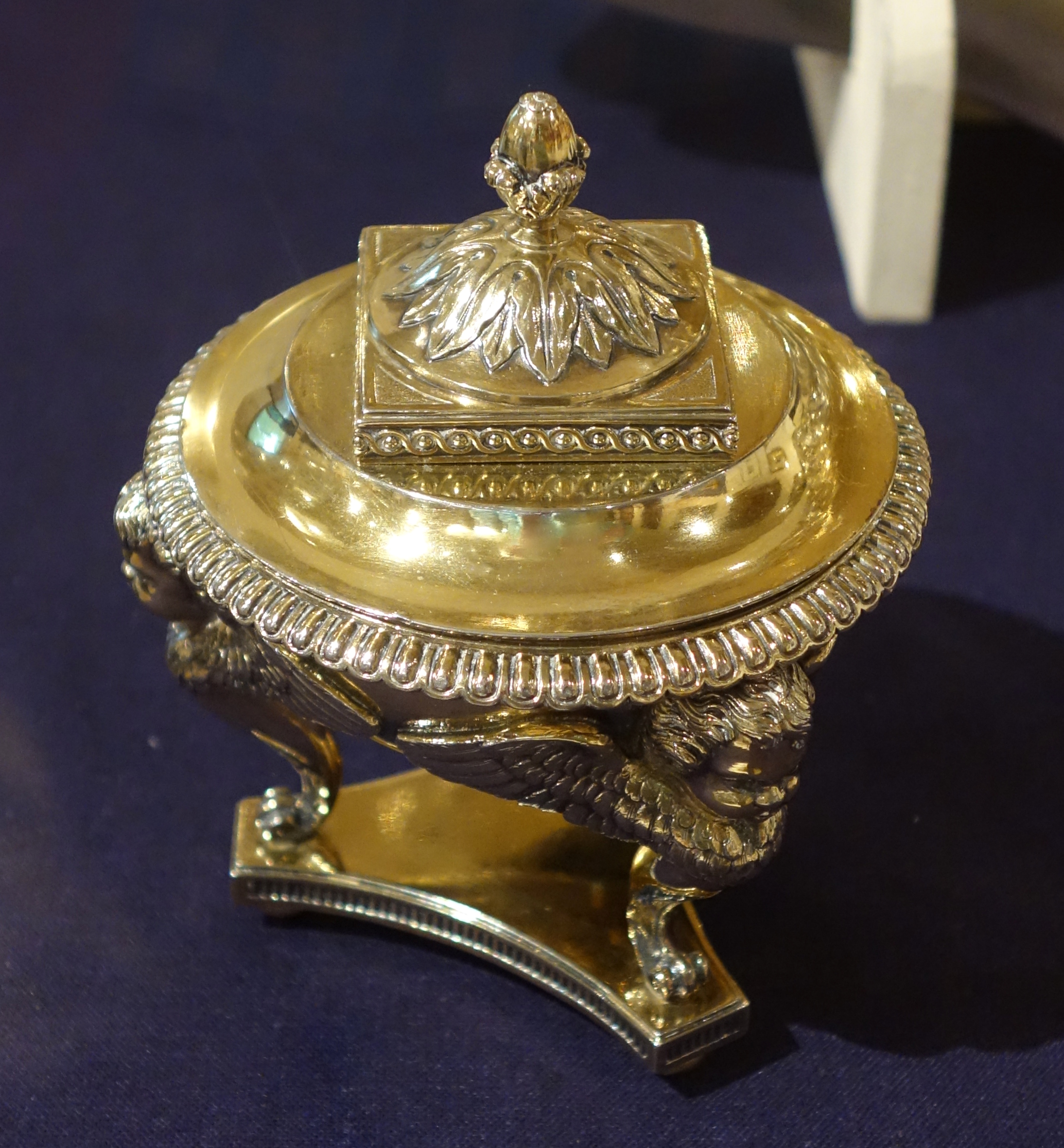 Exhibit in the Huntington Museum of Art, Huntington, West Virginia, USA. This artwork is in the public domain because the artist died more than 70 years ago.